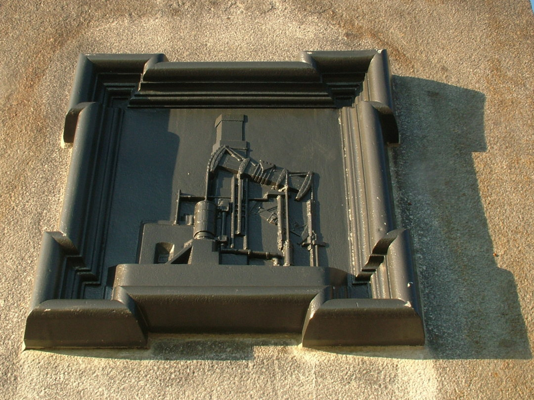 Relief picture of the first steam engine in the Mansfeld area in 1785 on the "Maschinendenkmal" ("machine monument") near Hettstedt on Ocotober 2nd, 2011.